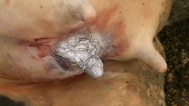 Udder sutures in a cow (after aluminium spaying) Walon: operaedje des tetes ås vatches : rakeudaedje, après stritchaedje a l' aluminiom (portrait saetchî pa L. Mahin).